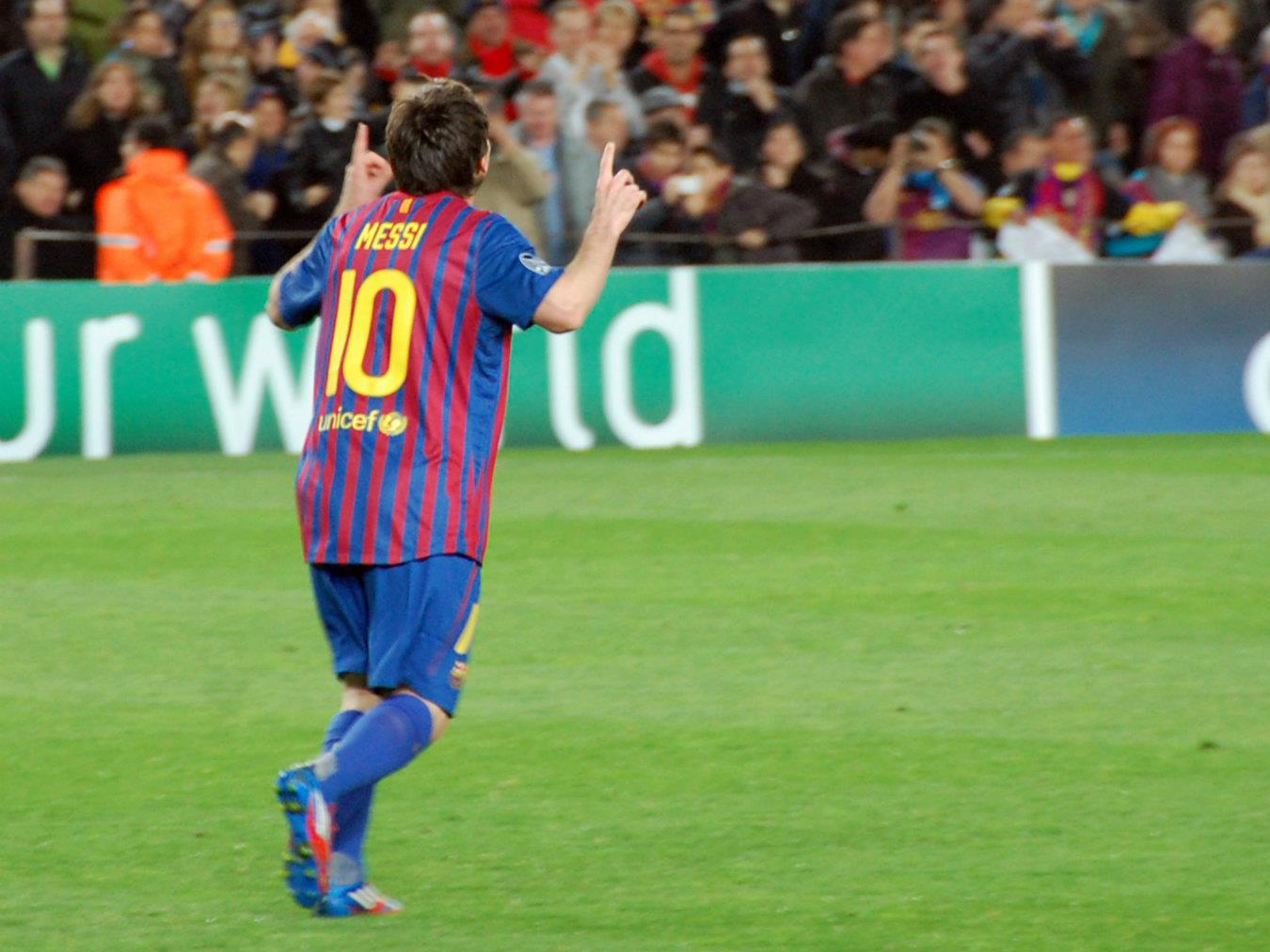 FC Barcelona - Bayer 04 Leverkusen, 1/8 Final UEFA Champions League, Season 2011/2012